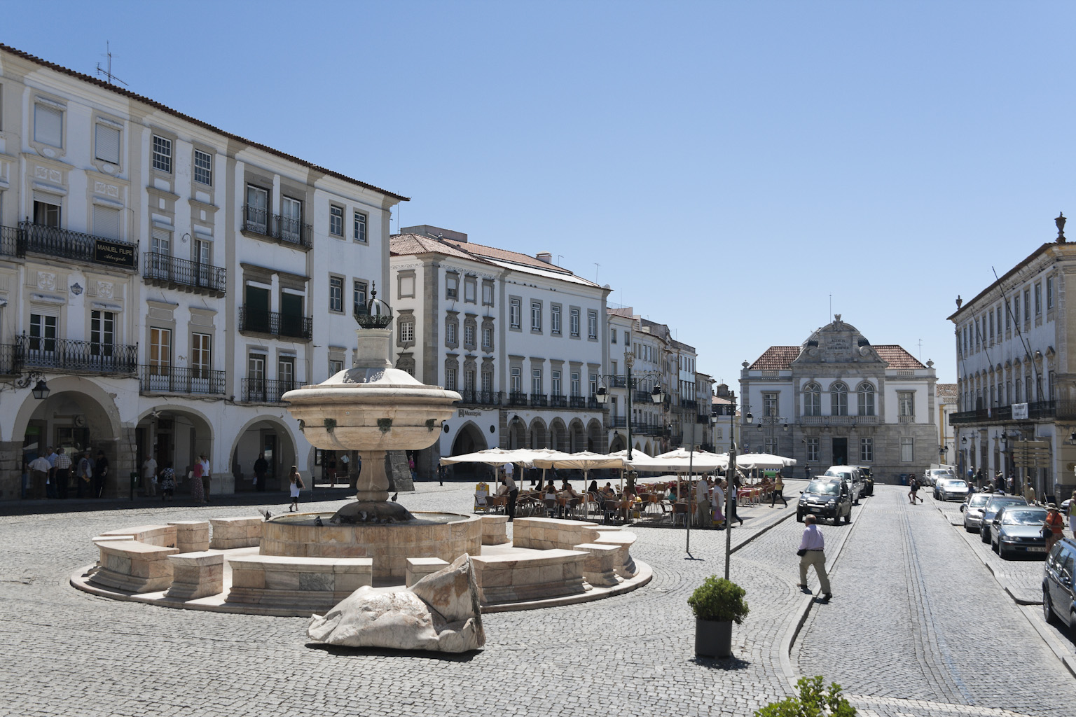 Évora - Praça do Giraldo